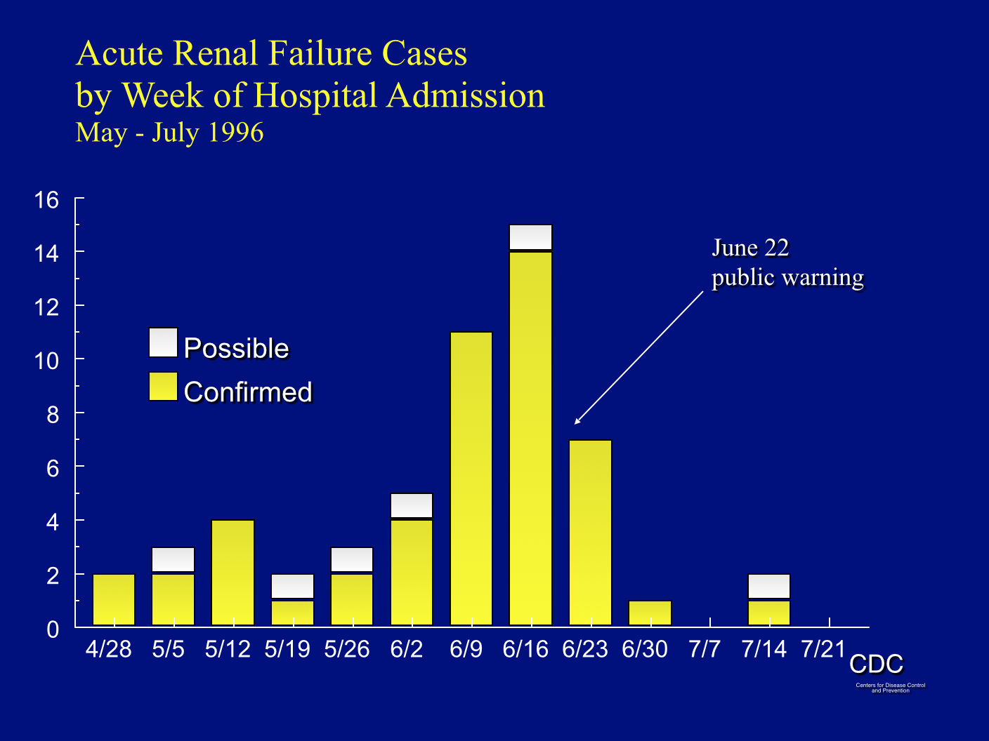 The epidemic curve from several months of the Haiti DEG epidemic of 1995-96. Based on data collected in Haiti by CDC investigators Katherine O'Brien and Joel Selanikio and then made into a slide, initially for a CDC presentation given by Drs. O'Brien and Selanikio, by Joel Selanikio.